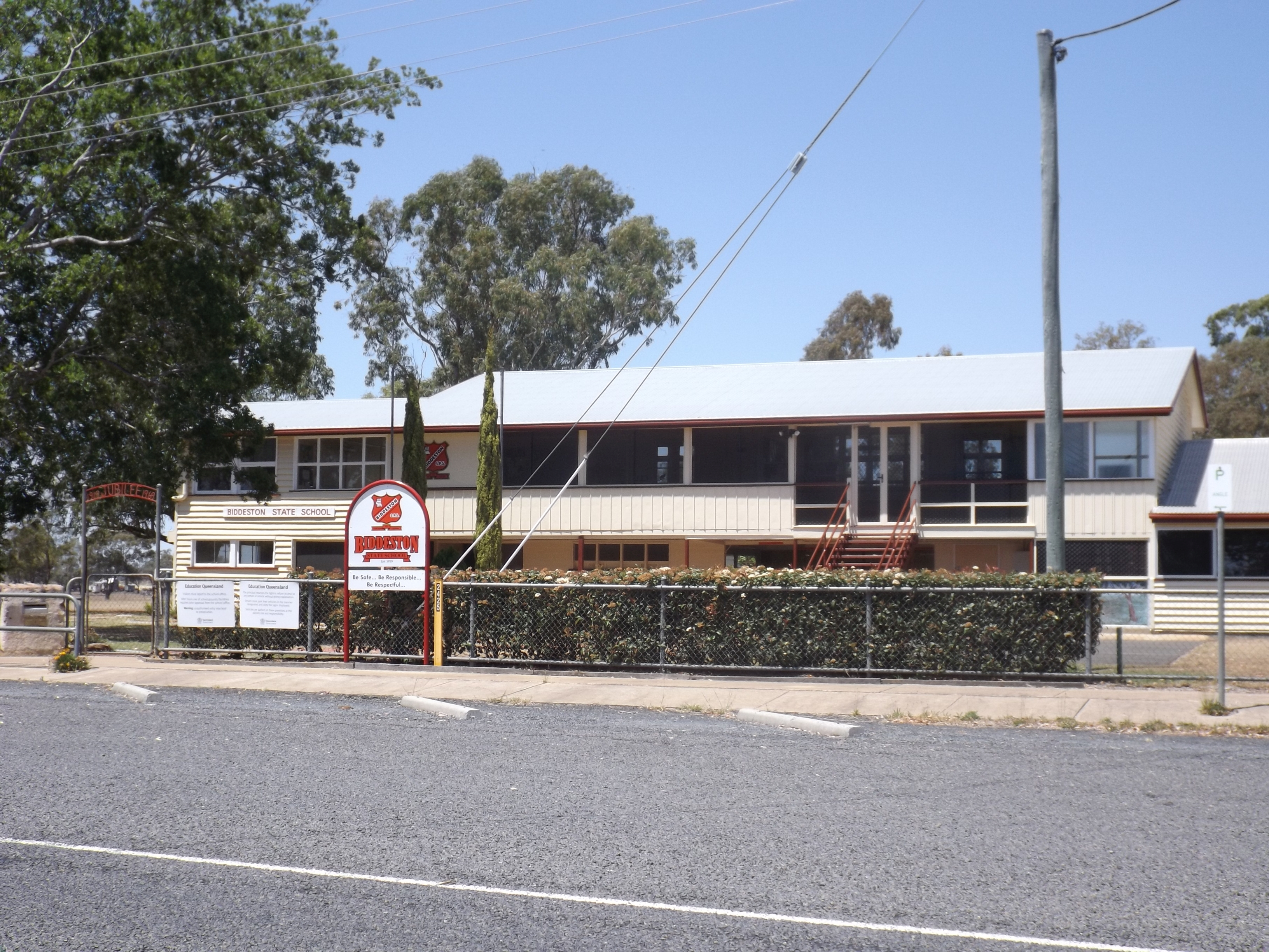 Photo of Biddeston State School at Biddeston, Queensland, Australia.